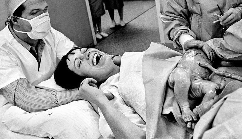 "Moment of Life", photograph of Lynda Coburn rejoicing at the birth of her daughter, Jackie Lynn Coburn, at St. Francis Hospital in Topeka. Lanker won the 1973 Pulitzer Prize for Feature Photography for his sequence documenting the birth, "as exemplified by" this photo.